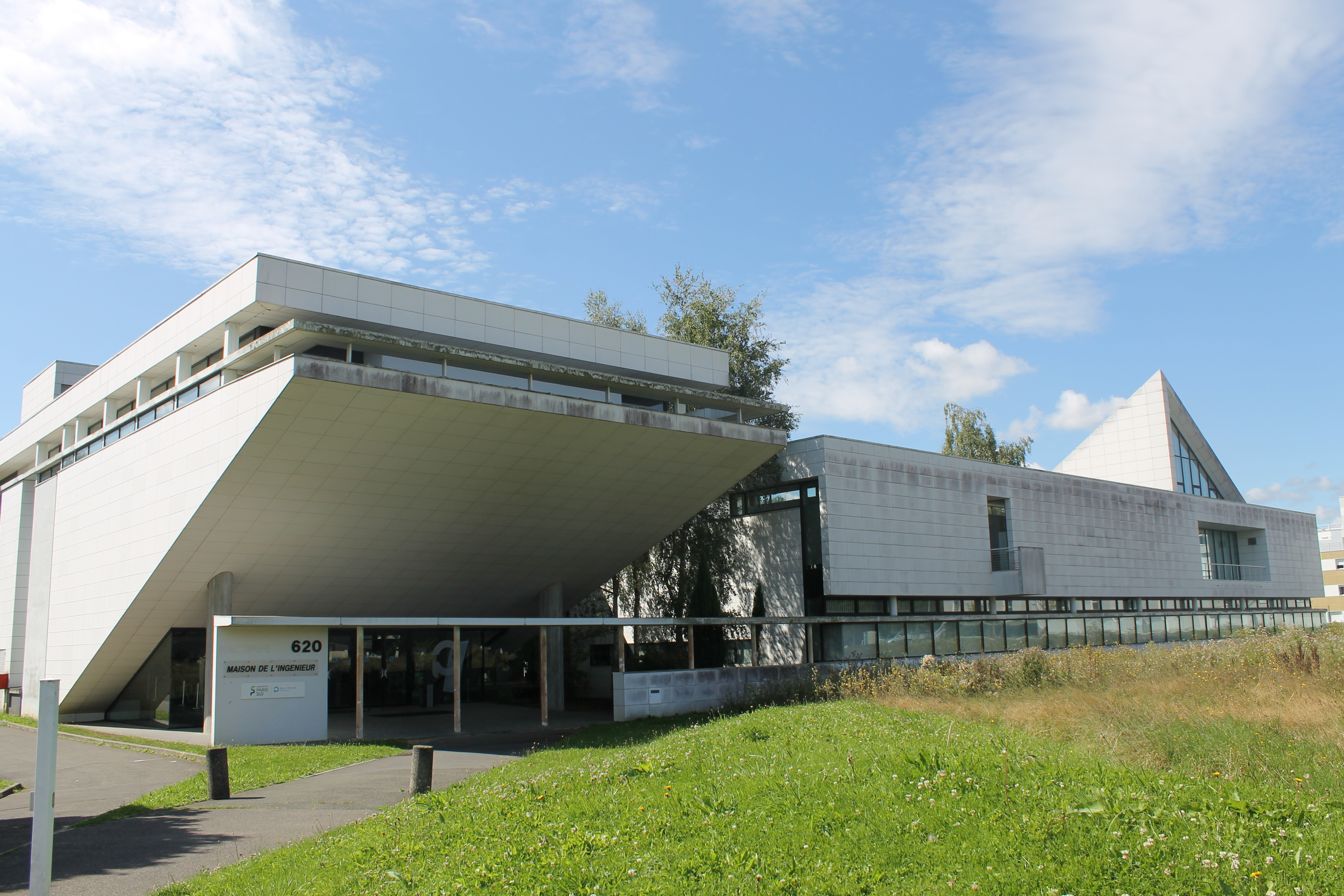 The House of engineering, a building of Polytech Paris-Saclay in the scientific cluster of Paris-Saclay, France (August 2014).